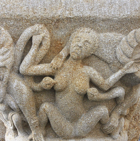 The Lust in the Romanesque art: the woman with breasts bitten by snakes